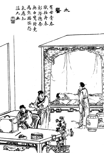 19th-century illustration of a scene from the short story "The Imperial Physician" collected in Strange Tales from a Chinese Studio (1740).